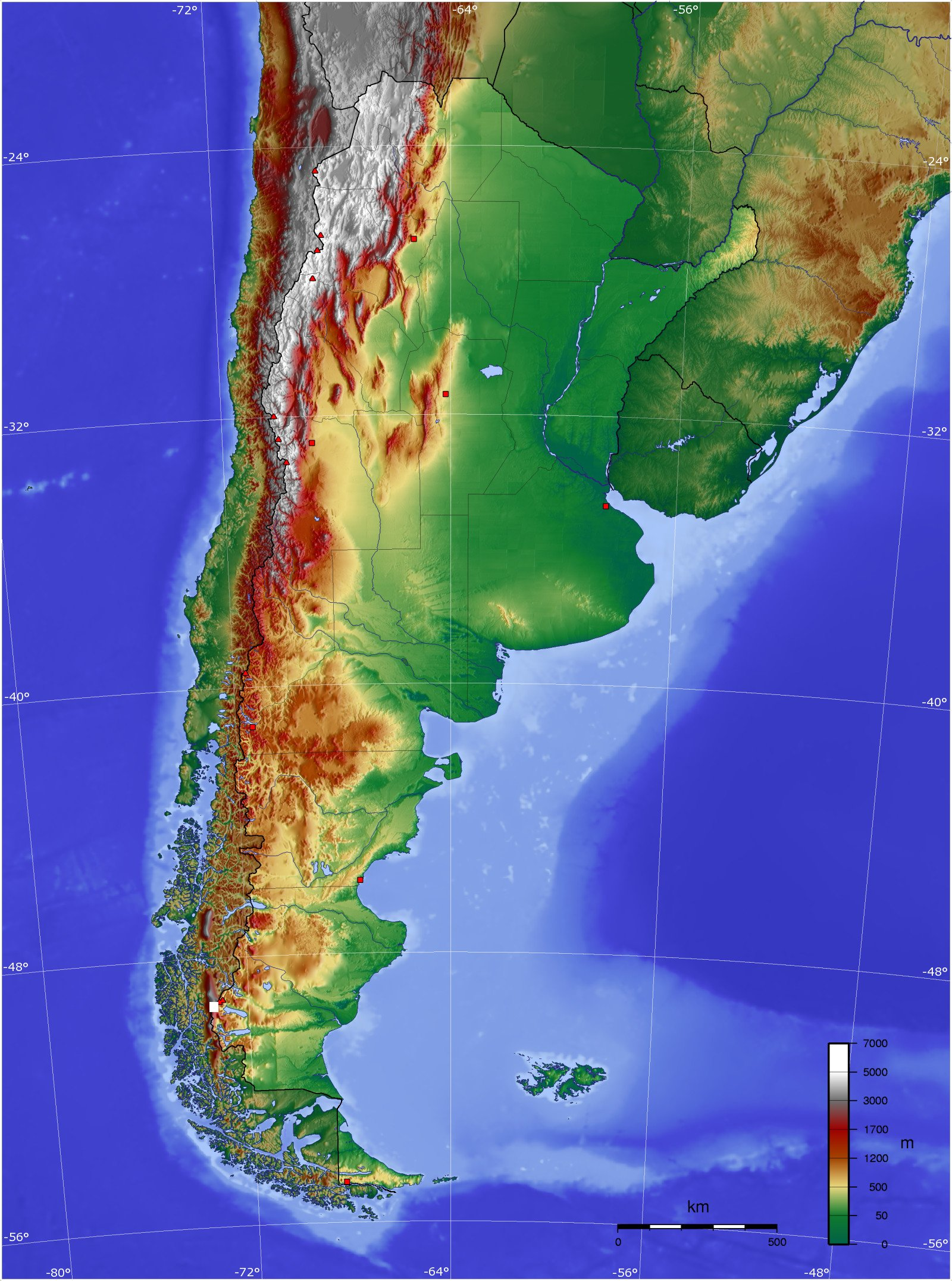 Map of Argentina with its terrain levels